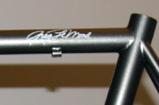 Cropped from Image:Lemond zurich 2000 img4246resized4lg.jpg